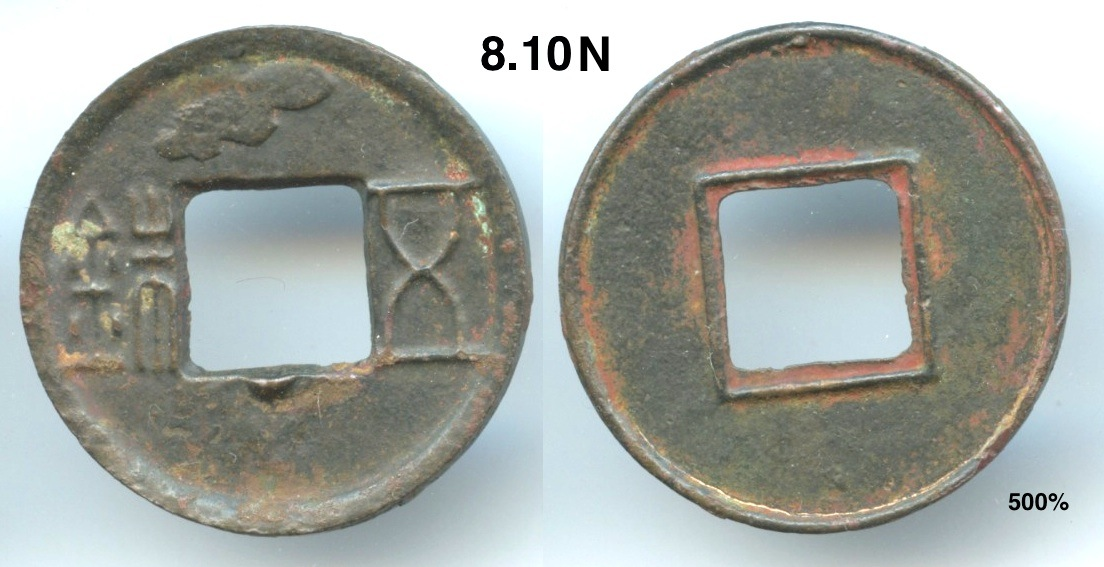 WESTERN HAN 206 BC - 25 AD PHOTO H# DESCRIPTION DETAILS PRICE 8.10N Wu Zhu: Rim bump below Hsuan-di, BC147-168, with control mark half-dot below center hole. Mould defect produces cloud-like element above. Not significant, but interesting. VF-EF $ 30.00.